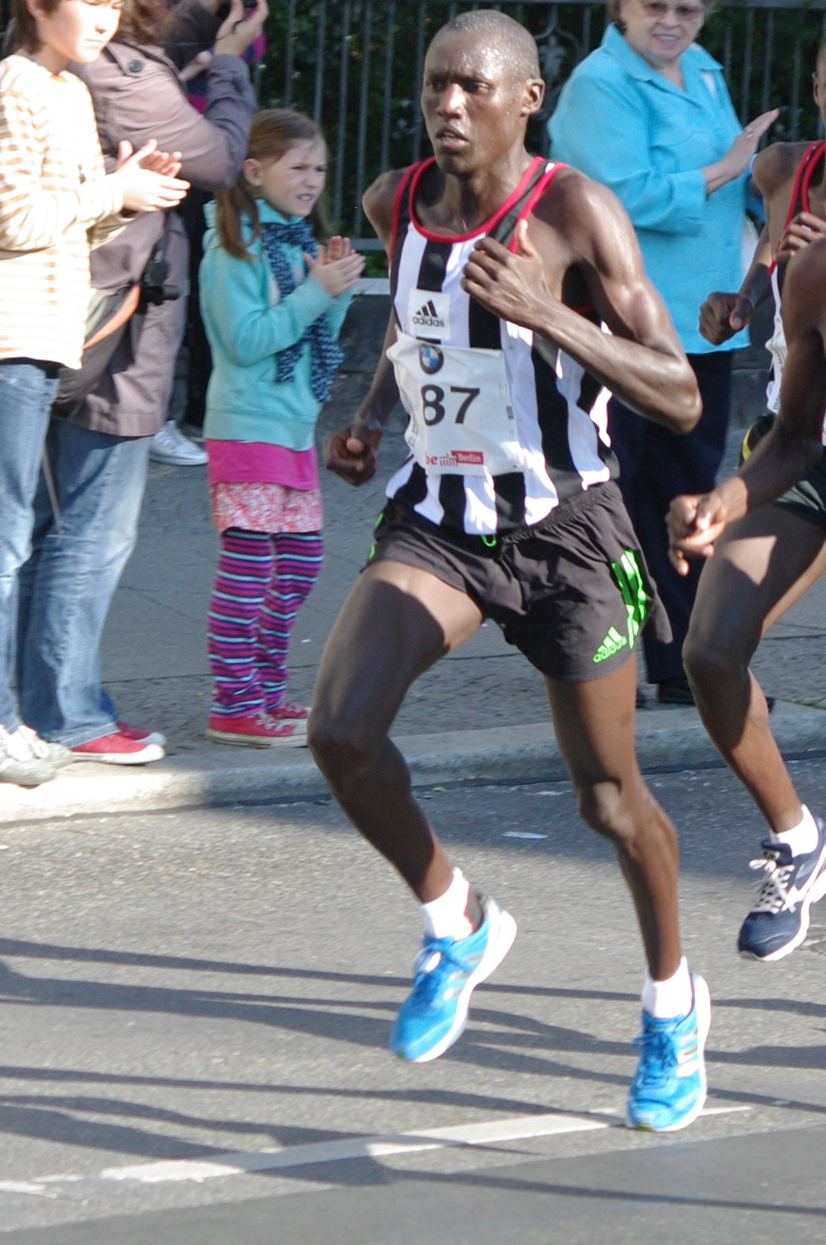 Stephen Kwelio Chemlany running the Berlin Marathon 2011. Here at km 25, Innsbrucker Platz.